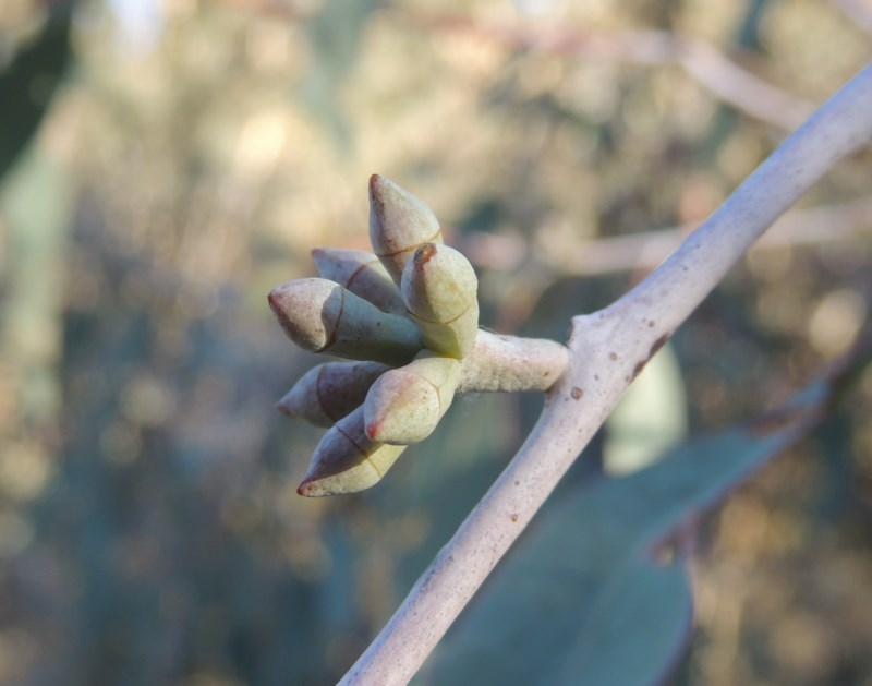 Flower buds of Eucalyptus nortonii in Rob Roy Range Nature Reserve, in the hills to the east of Banks